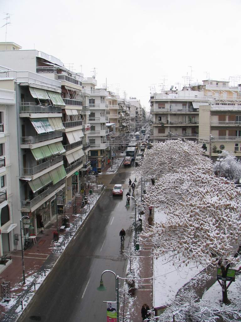 LARISA snow in PAPANASTASIOY street